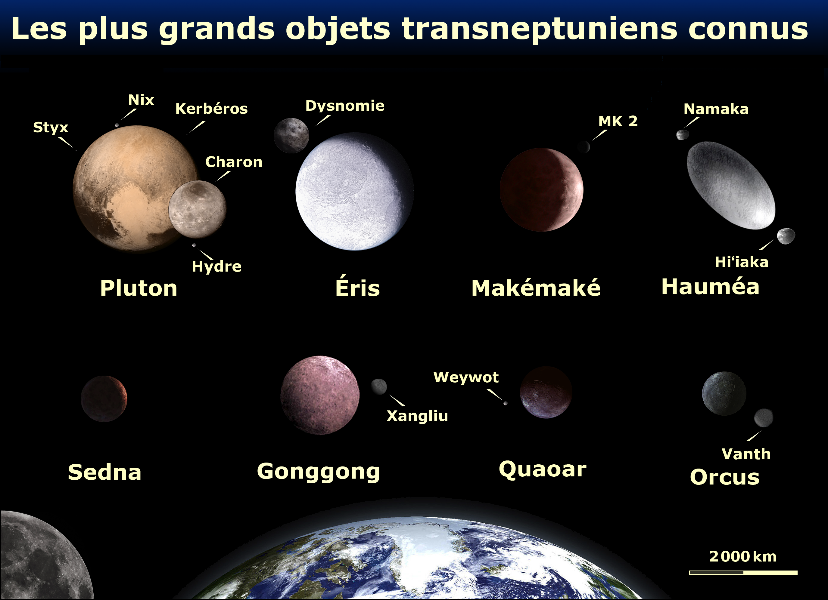 Image:EightTNOs.png into French.